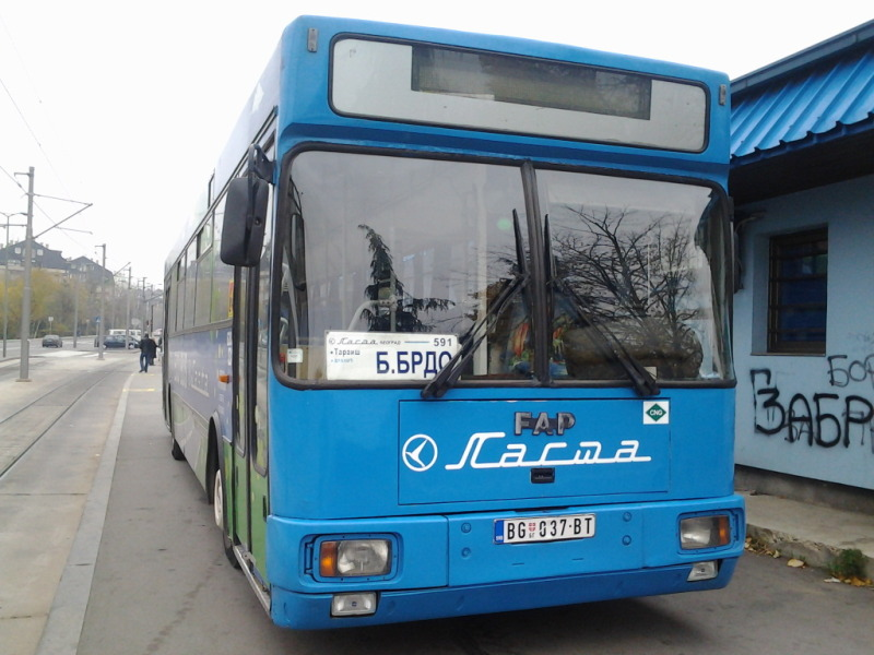 Autobus 6202, linija 591 na terminalu Banovo brdo.